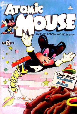 Cover to issue #1 of Atomic Mouse, drawn by Al Fago (Charlton Comics, March 1953 )